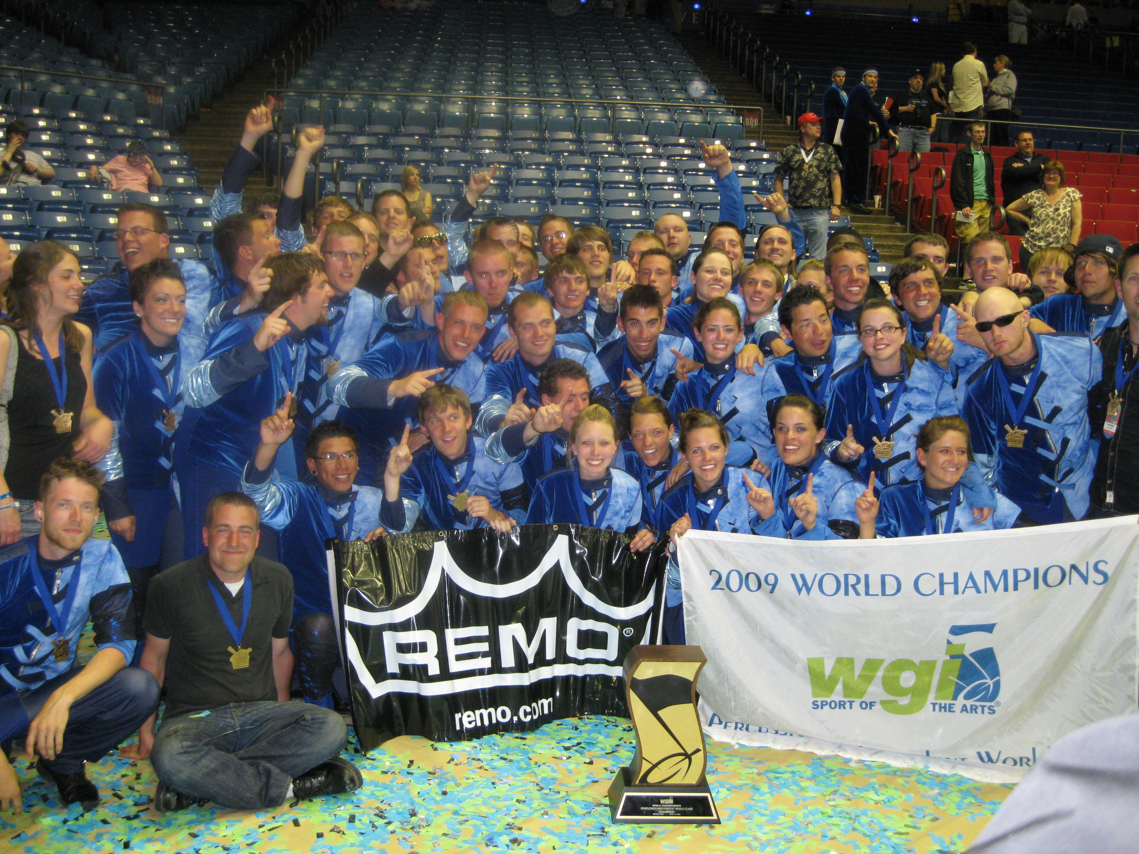 Rhythm X 2009 after being awarded gold medals in Percussion Independent World Class at the 2009 Winter Guard International Percussion World Championships with their program "Touch," which received the highest score ever given to a PIW performance at World Championships: 97.263.